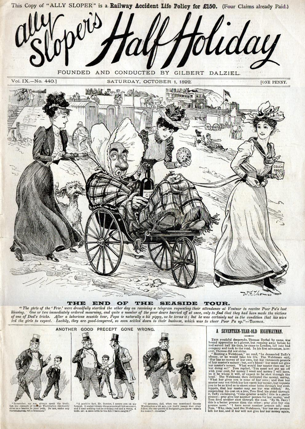 Cover of the October, 1st 1892 Ally Sloper's Half Holiday issue. Drawing of Ally by W. Fletcher Thomas.